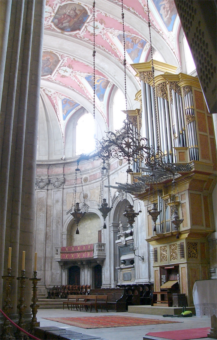 Main chapel of Lisbon cathedral